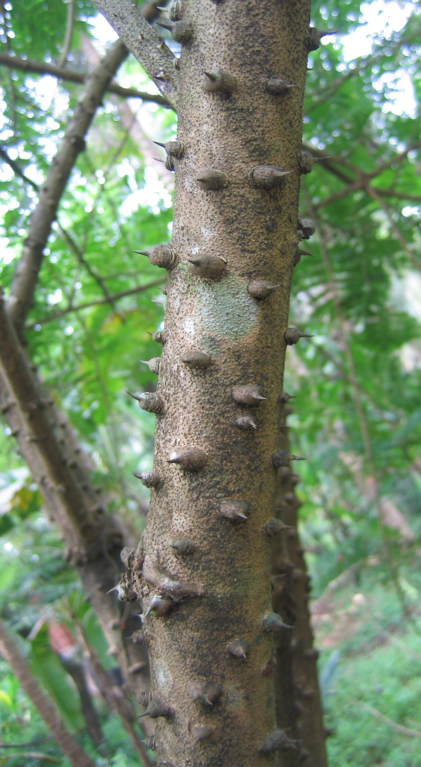 Caesalpinia sappan